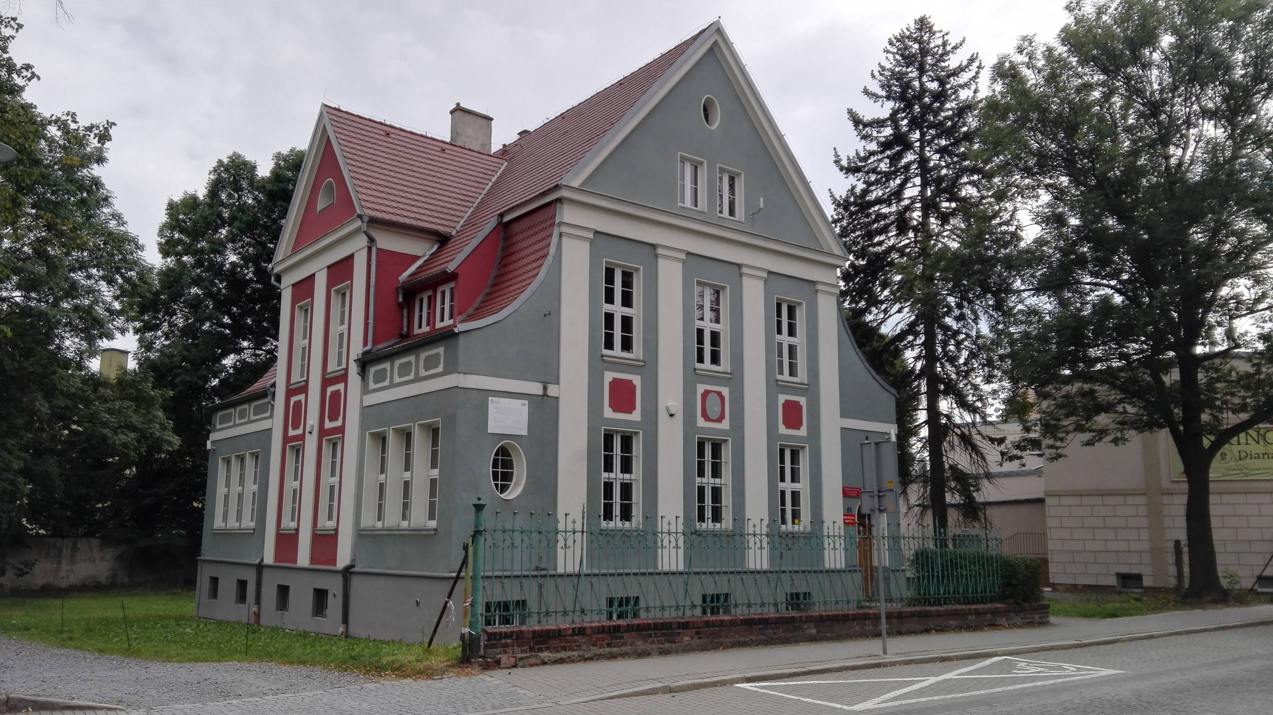 1 Gimnazjalna Street in Prudnik